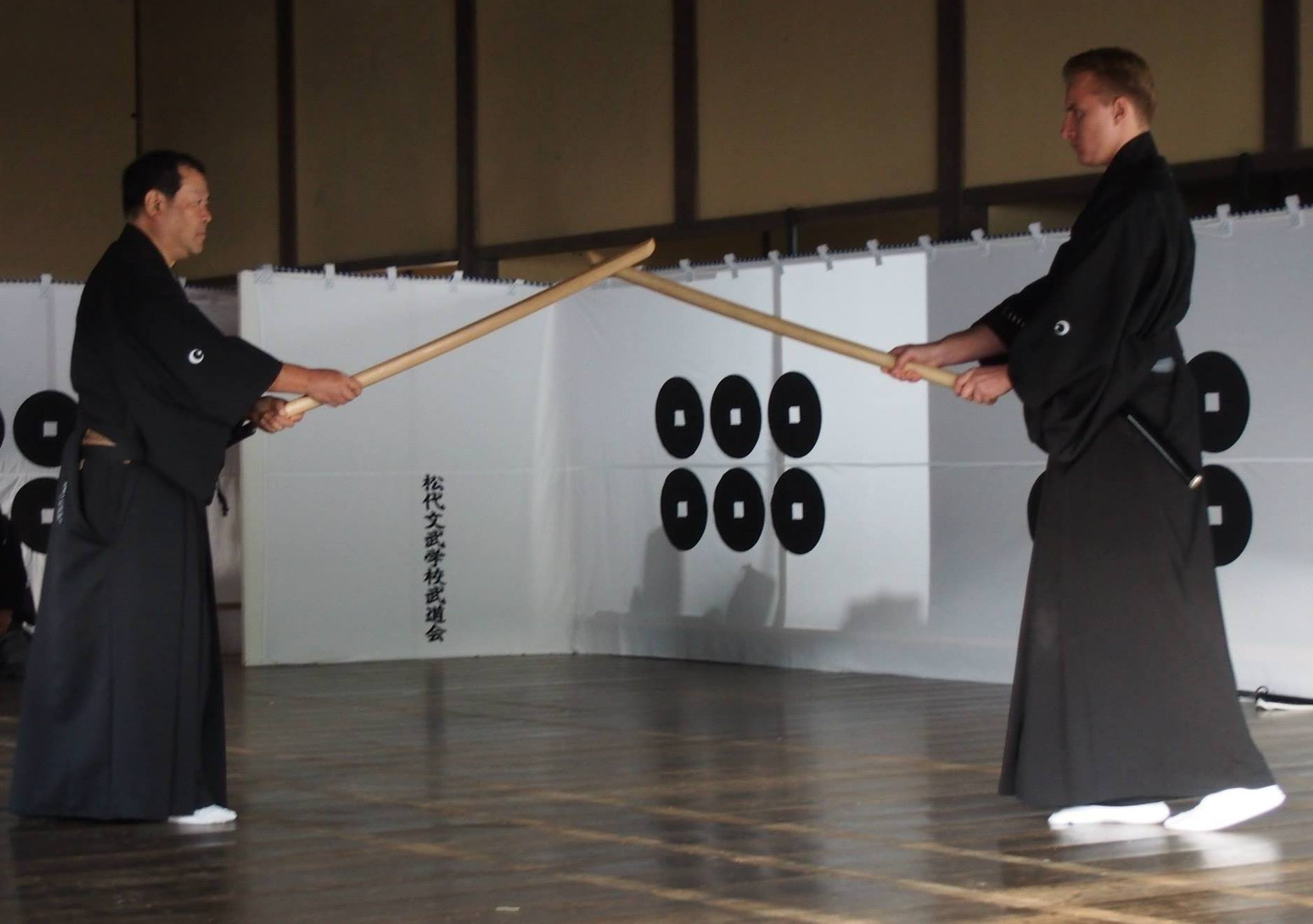 Ôtsuka Yôichirô Masanori-Sôke & Lösch Markus Masatomo Saikô-Shihan